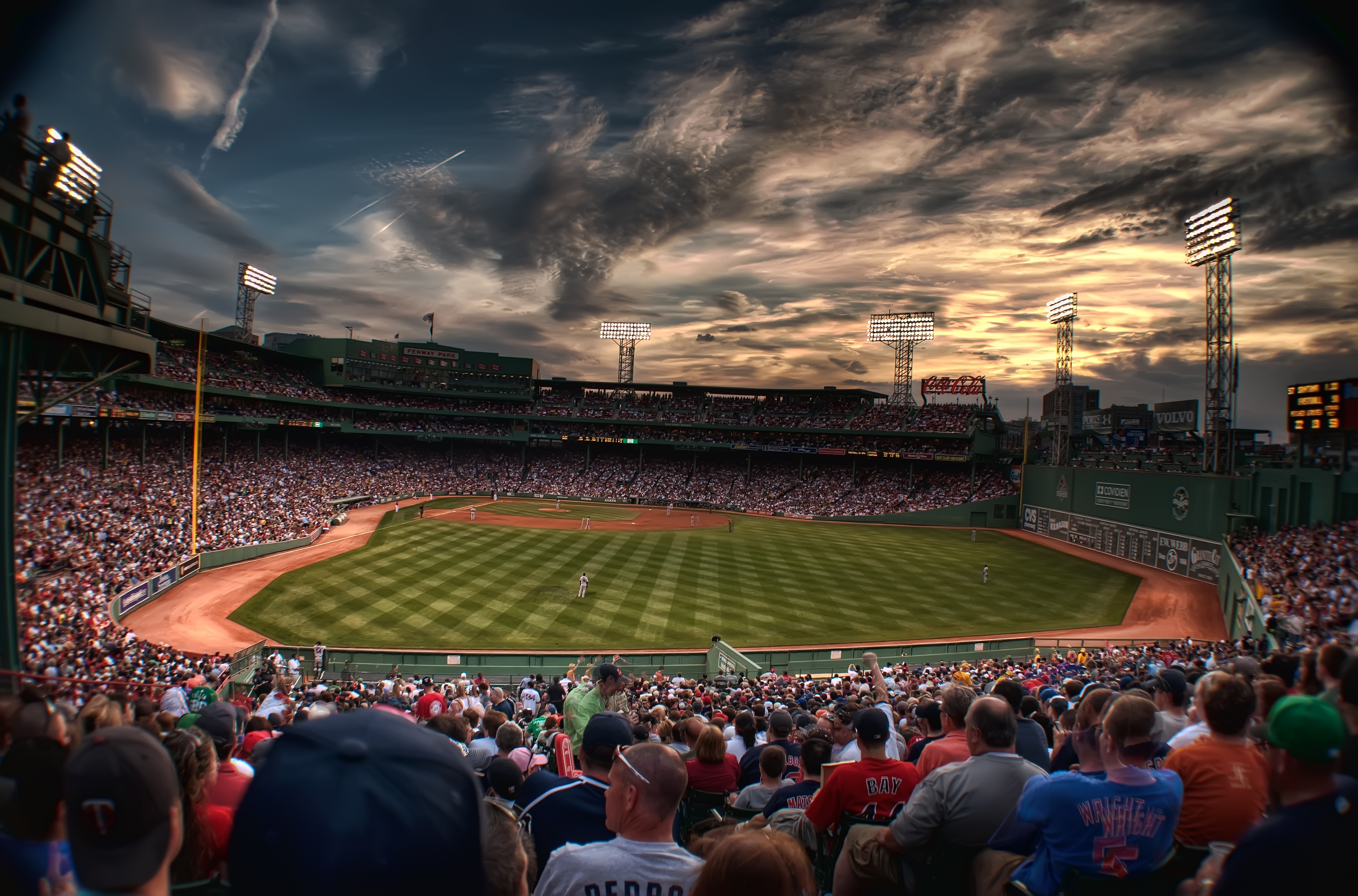 The fenway stadium in Boston is the Holy of Holies of a real Red Sox Fan.